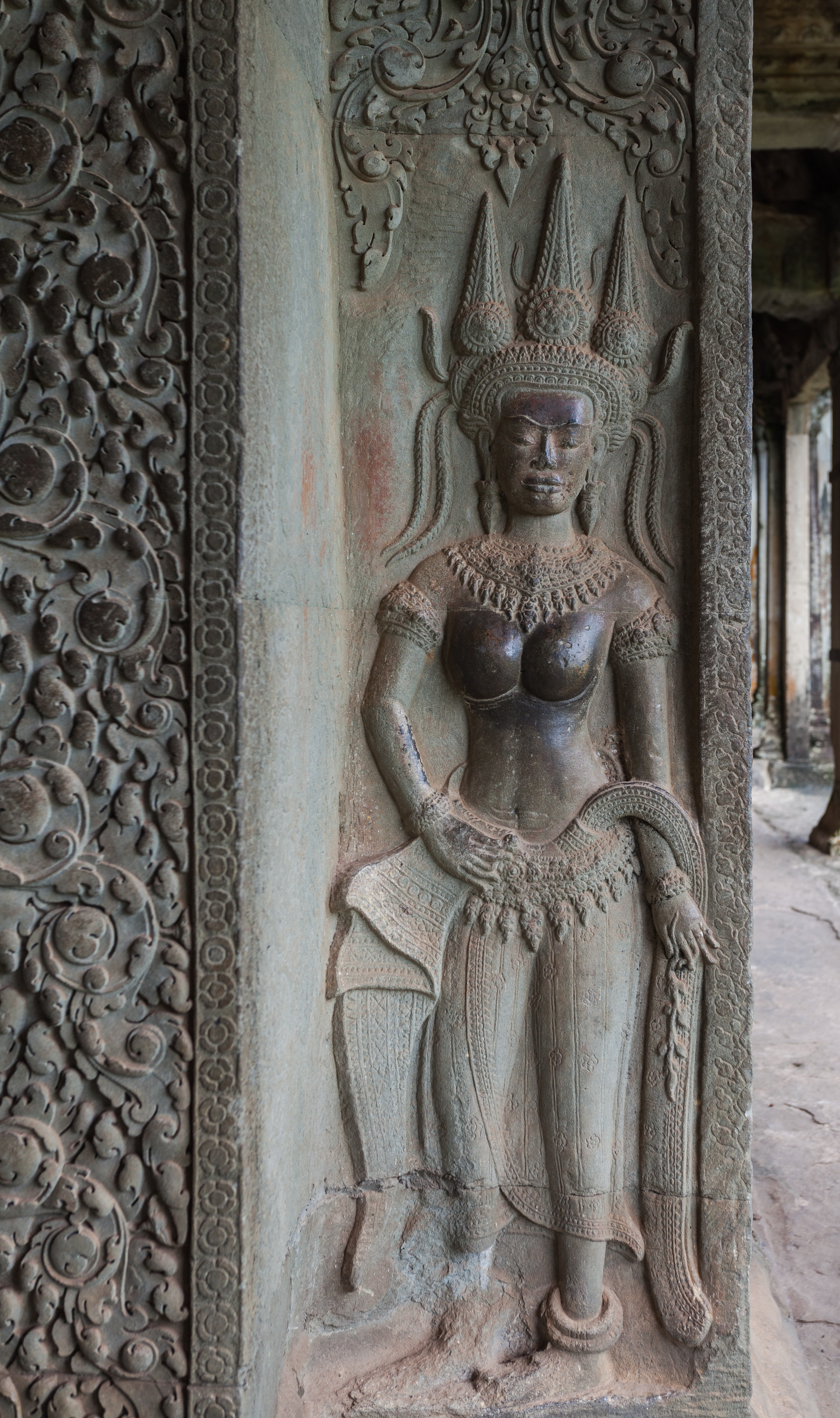 Angkor Wat, Cambodia